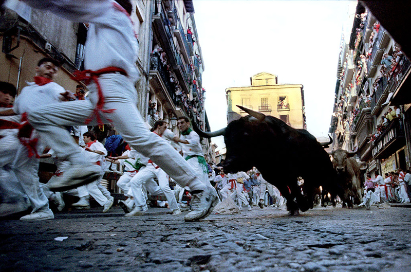 "Just For The Lark Of It" Runners and brave bulls approach a sharp corner in the running-with-the-bulls course in Pamplona's old city streets as they stampede toward the bullring in a ritual that is close to 500 years old, and takes place each morning for eight days during the annual Fiesta de San Fermin in Pamplona (Navarra), Spain. Picture taken on July 7, 1993 and the bulls are from the ranch of Cebada Gago Photograph by Jim Hollander, 1993 (July 7, 1993)